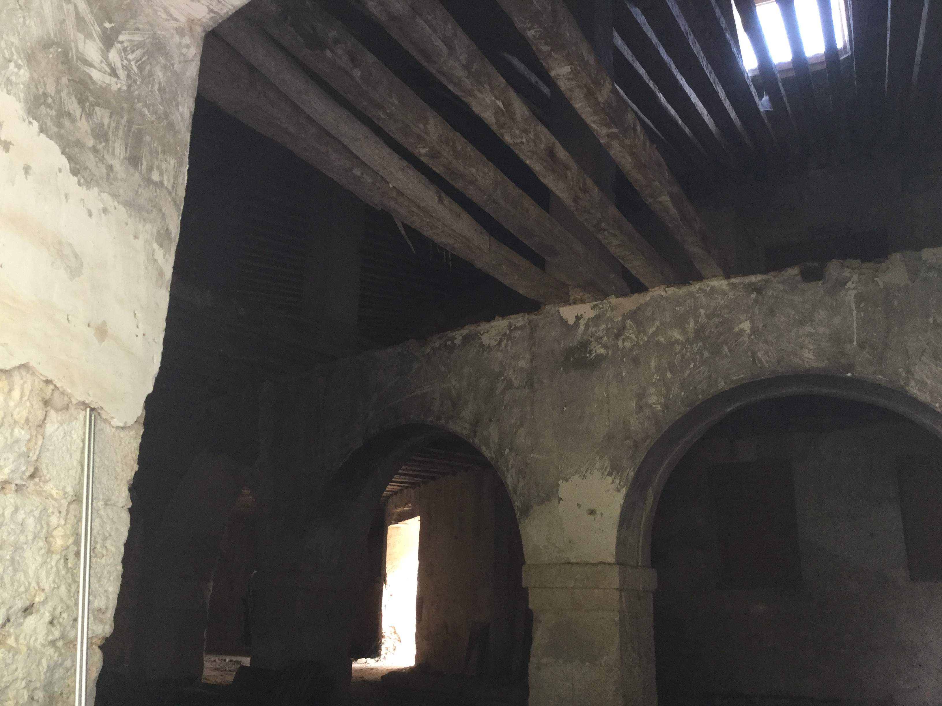 Intérieur du bâtiment circulaire de la fabrique